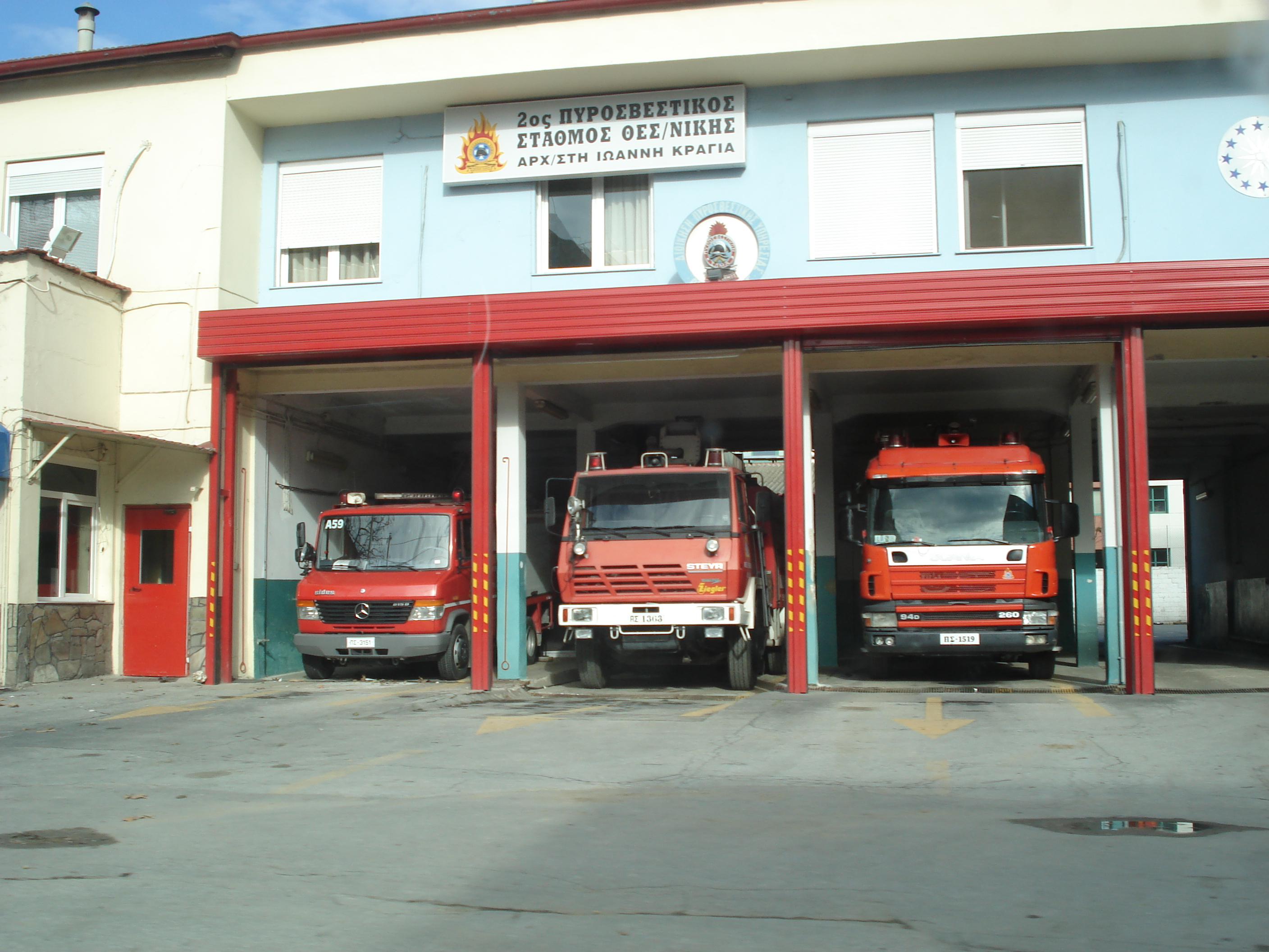 2nd Fire Station - Thessaloniki - Greece